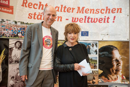 Schirmherrin Hannelore Hoger